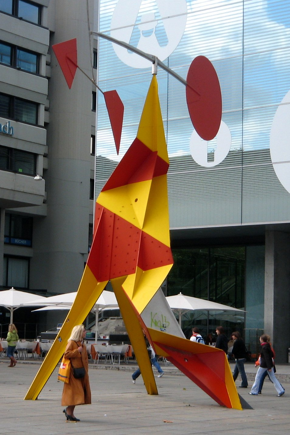 A "stabile" by Alexander Calder in Stuttgart